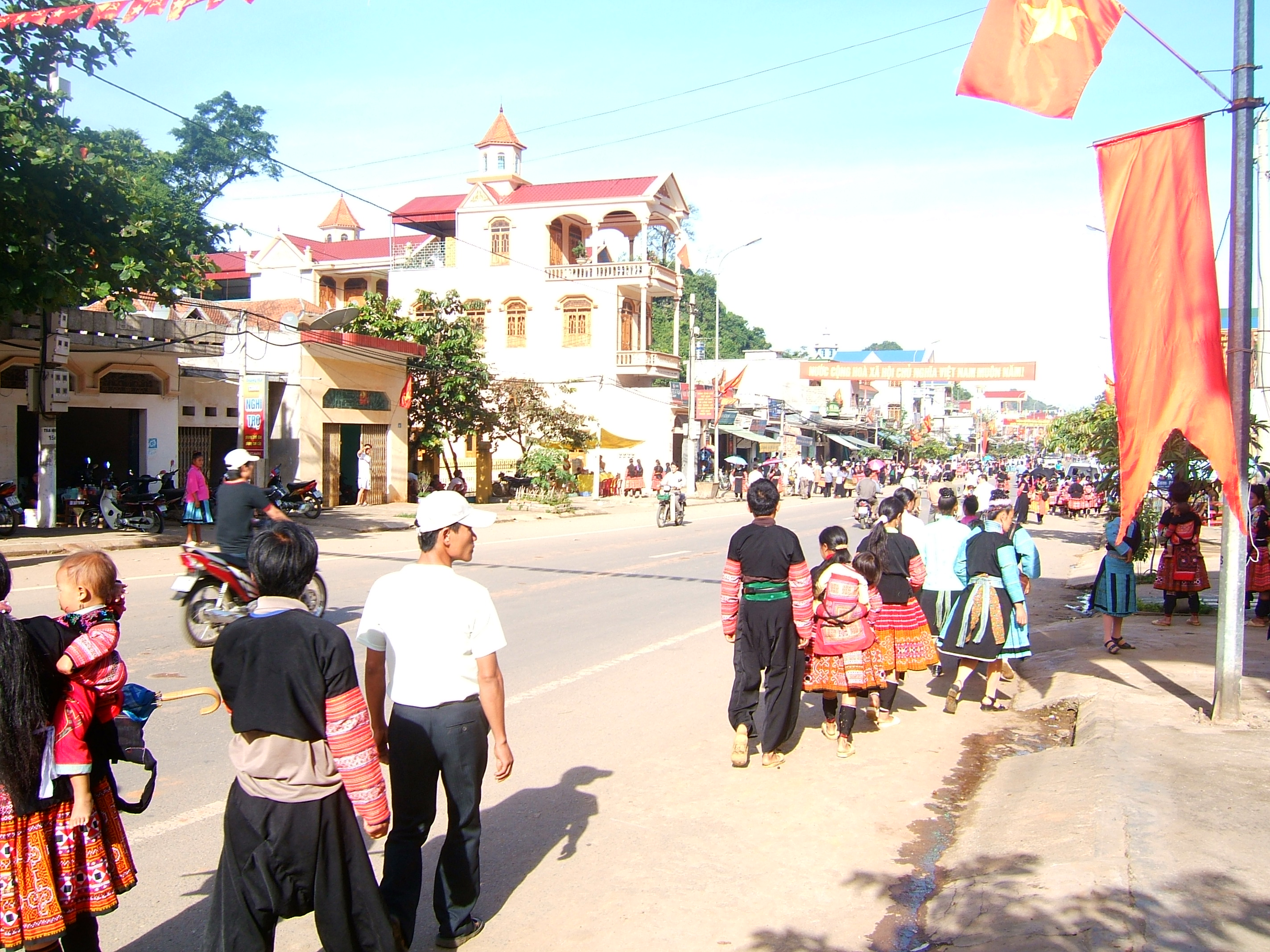 Moc Chau township, Moc Chau District, Son La Province, Northwest Vietnam